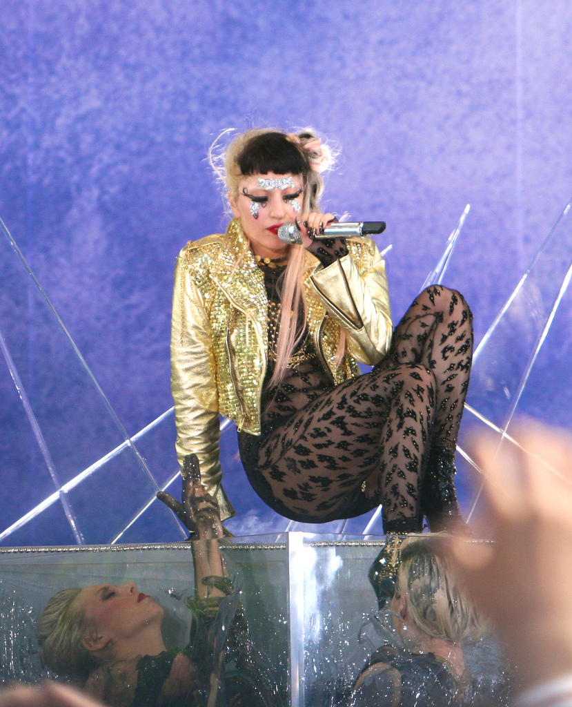 Lady Gaga performing "Born This Way" on her GMA concert, 2011.